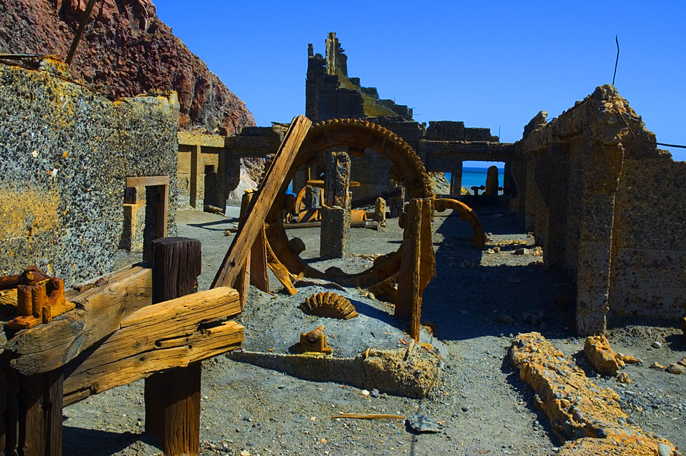 Corroded remains of sulphur mining operation (until 1914), White Island (Whakaari) in the Bay of Plenty, The North Island, New Zealand